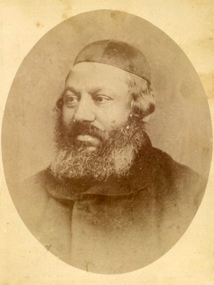 Fishman, Sheraga